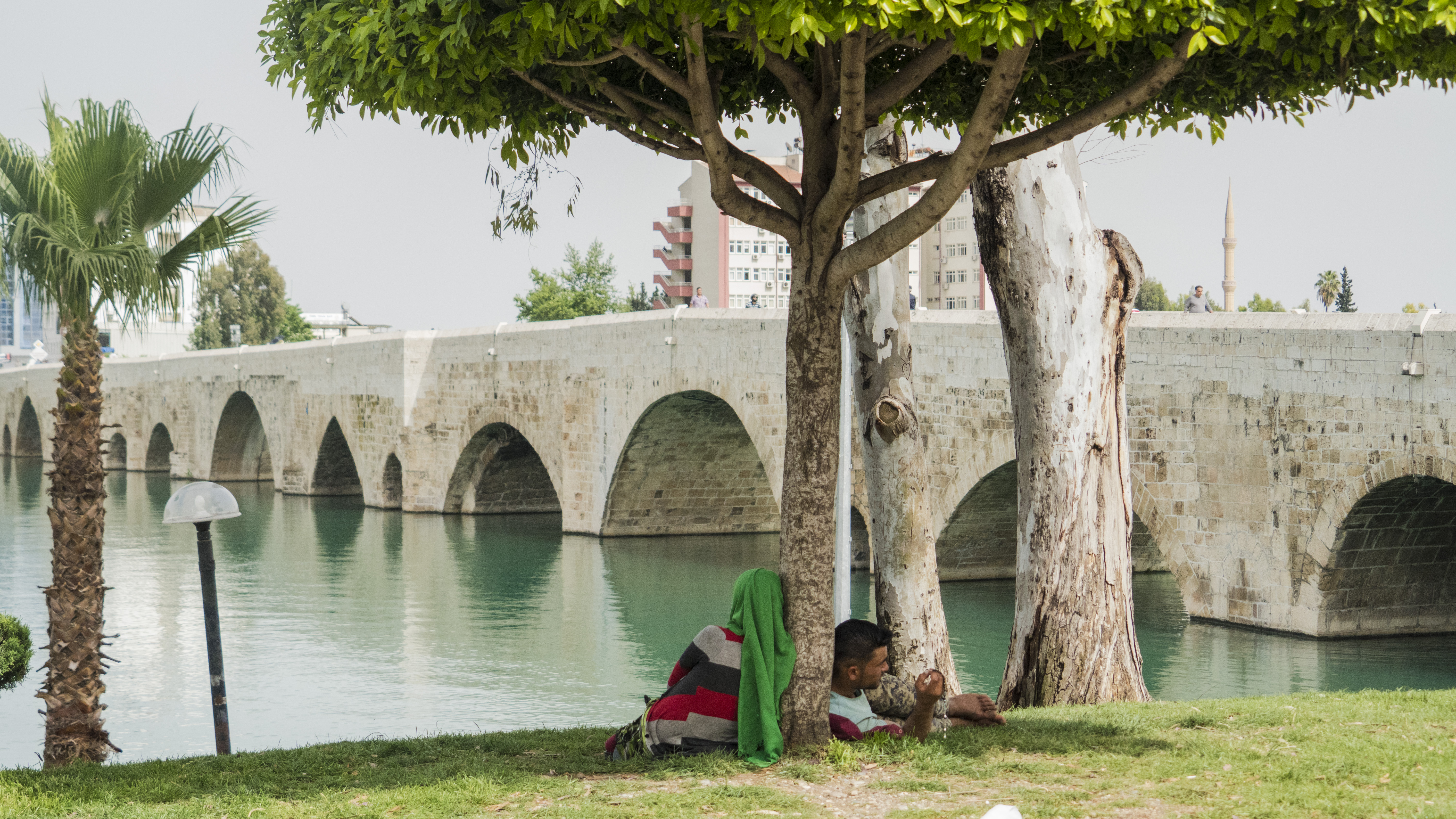 Taşköprü (Stone bridge), Adana Object location36° 59′ 11.34″ N, 35° 19′ 59.87″ E